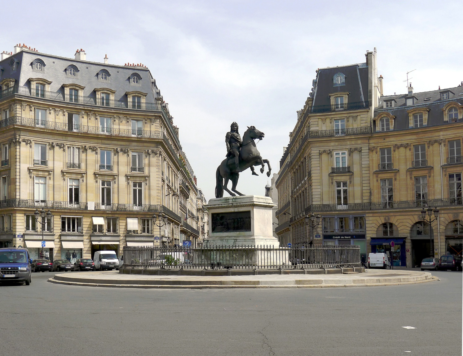 Victoires place - Paris